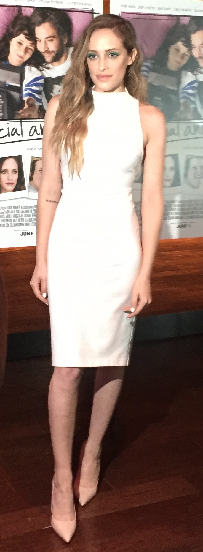 Carly Chaikin at the premiere for Social Animals